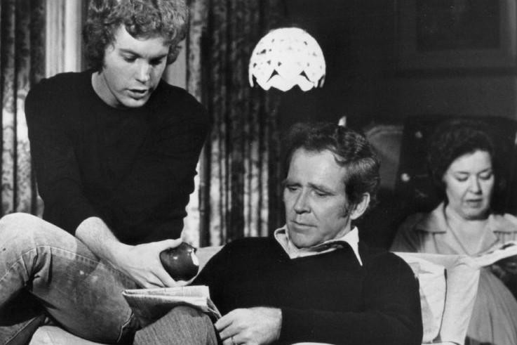 Photo of Gary Frank (Willie), James Broderick (Doug) and Sada Thompson (Kate) from the television program Family.